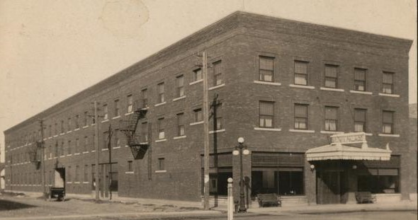 Realphoto postcard on KRUXO paper of the Brown Palace Hotel, 301 Main Street, Mobridge, South Dakota, United States, postmarked 9 July 1922